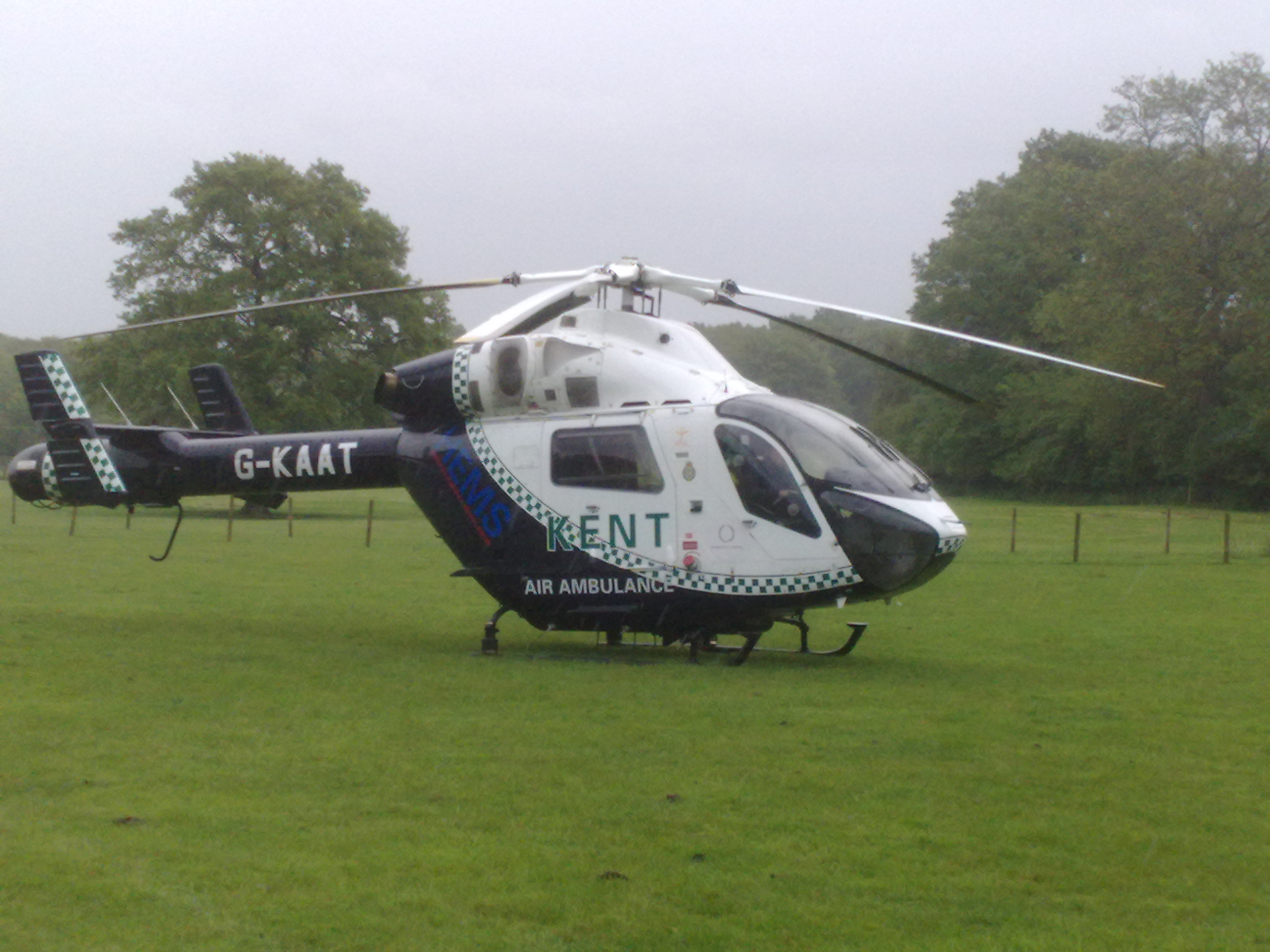 Picture of Kent Air Ambulance helicopter G-KAAT at Wivelsden Farm, Sussex